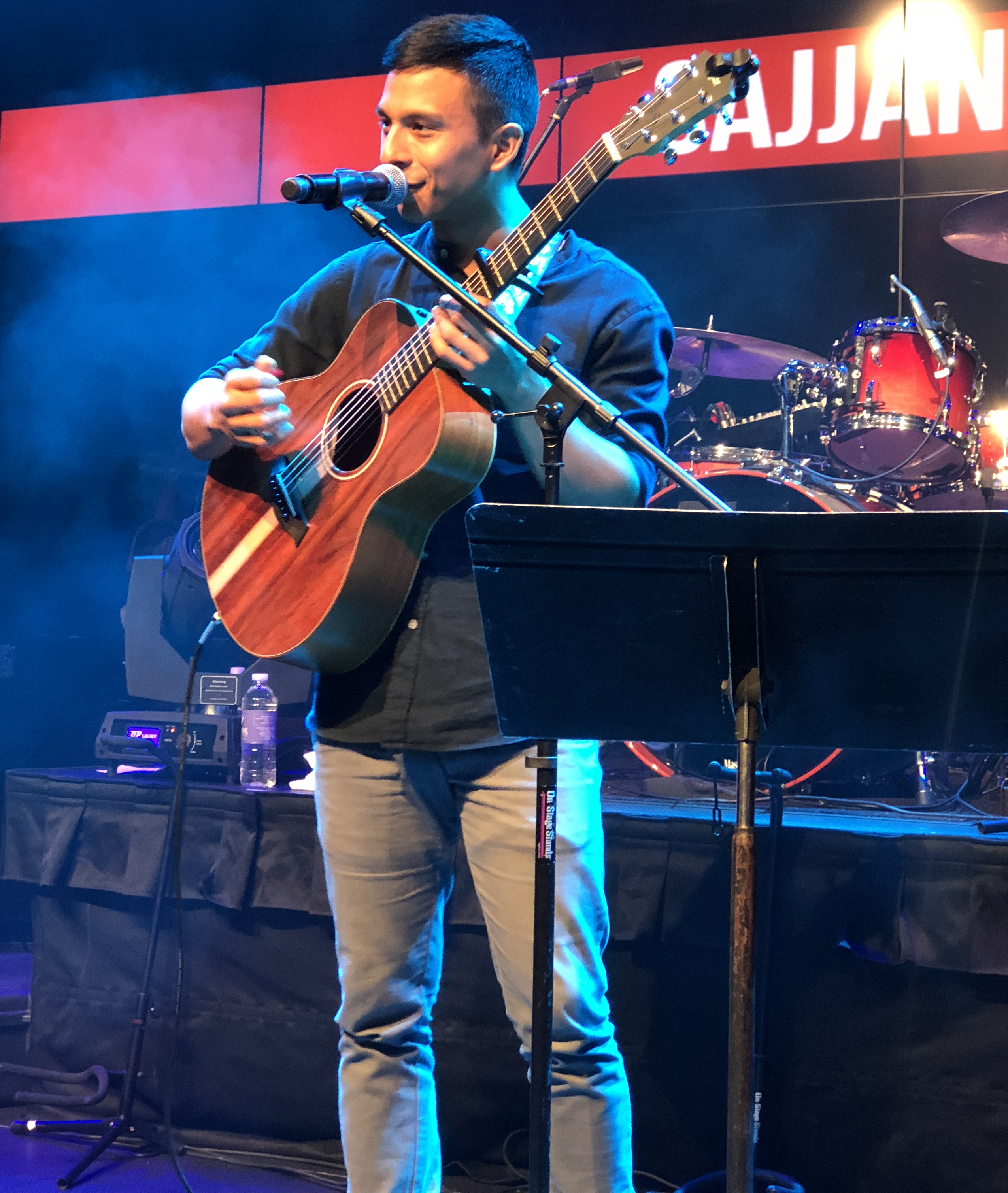 This photo was taken at Sajjan's live show in New York City.